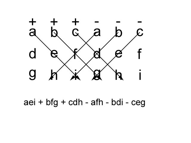 This image is an example of how to easily remember the order of operations for calculating the determinant of a 3x3 matrix using the diagonals and back-diagonals as indicated.